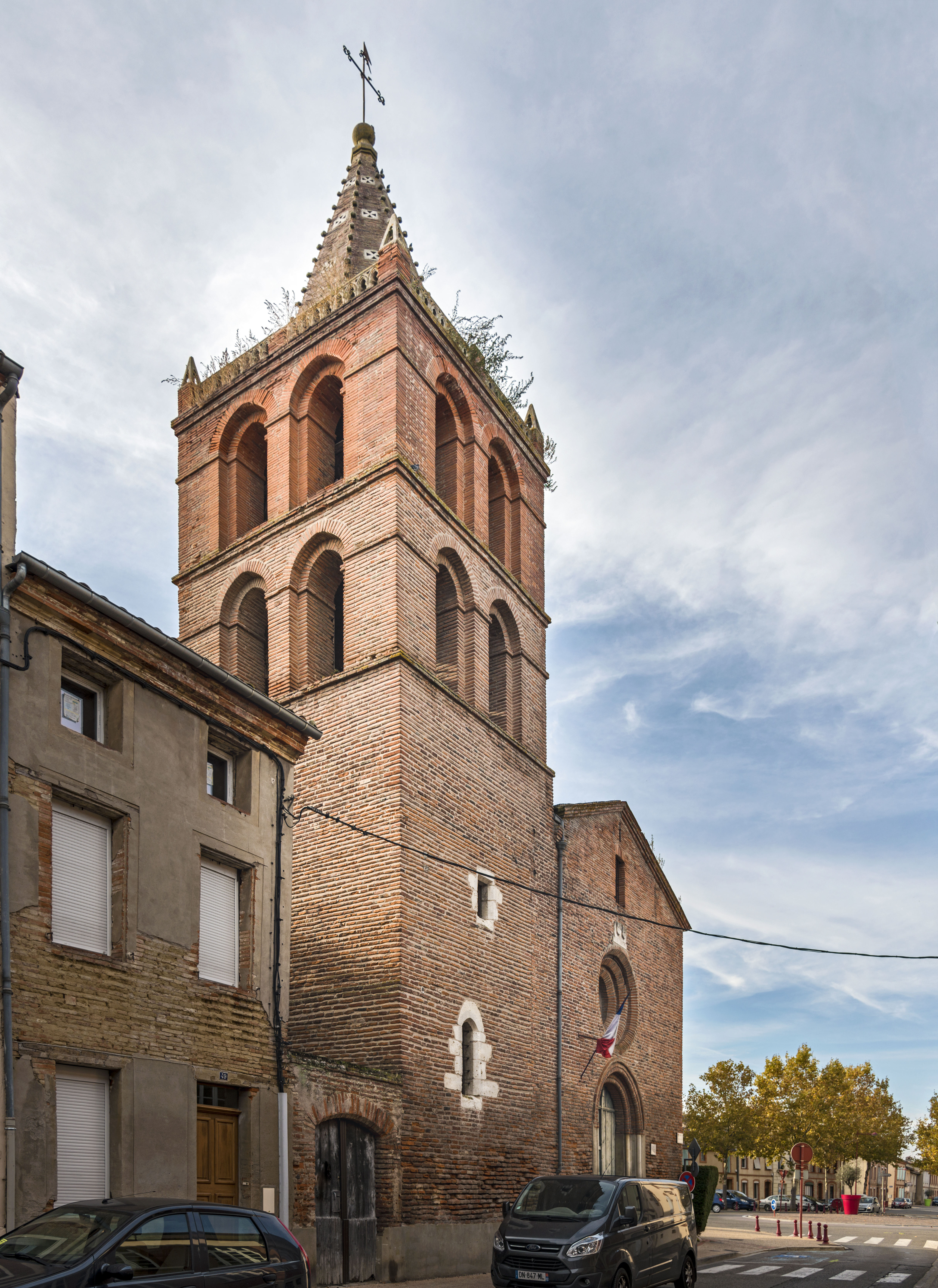 Commandery of Hospitallers of Saint-Jean-de-Jerusalem, currently parish church Saint-Jean-Baptiste Castelsarrasin Tarn-et-Garonne, France - Bell tower and facade.